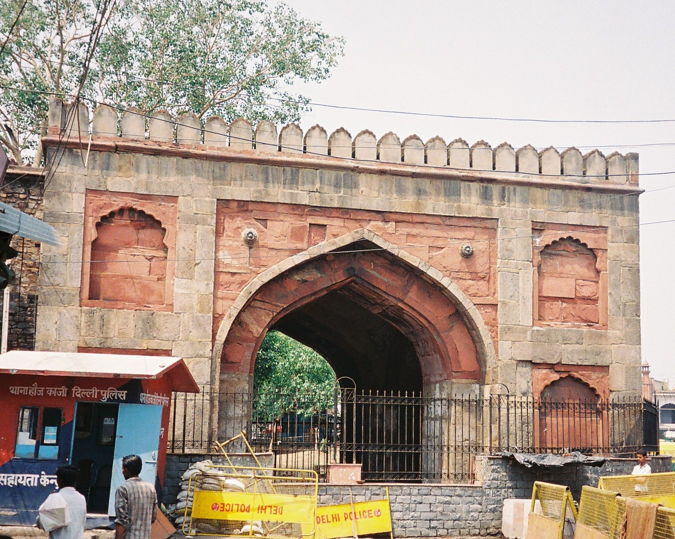 Another view of Ajmeri Gate